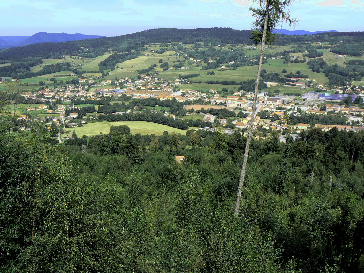 Panorma of Fraize (Vosges, France) from the Roche des Fées